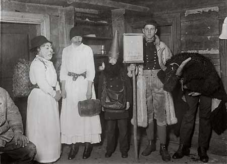 A group of characters from a traditional Swedish christmas celebration, including a Yule Goat.